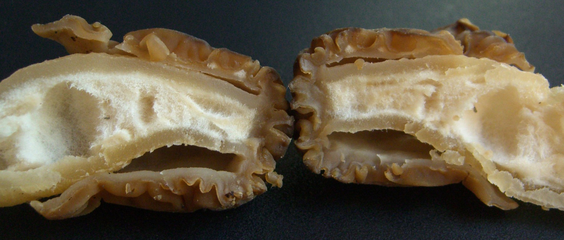 A cross-section of Verpa bohemica (Krombh.) J. Schröt.